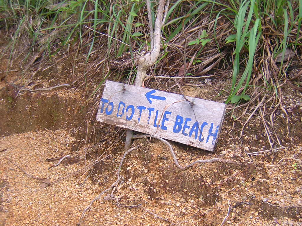 Sign marking the trail to Bottle Beach on Ko Pha ngan, Thailand